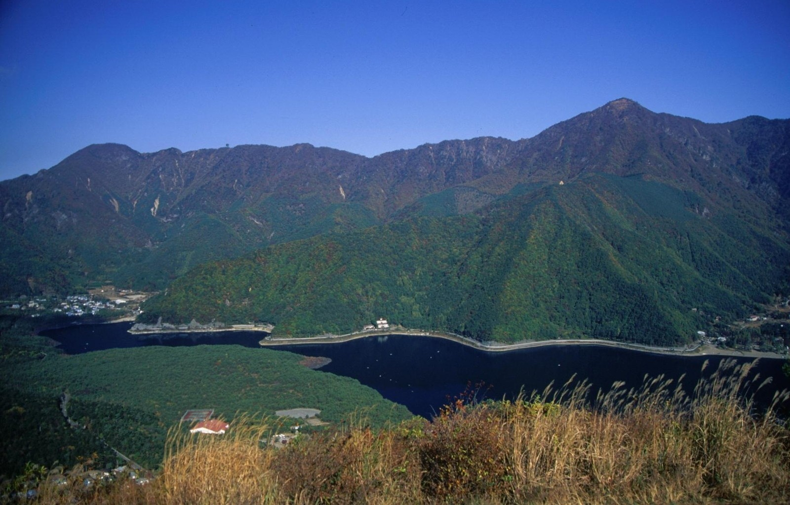 Saiko Lake and Aokigahara from Koyodai